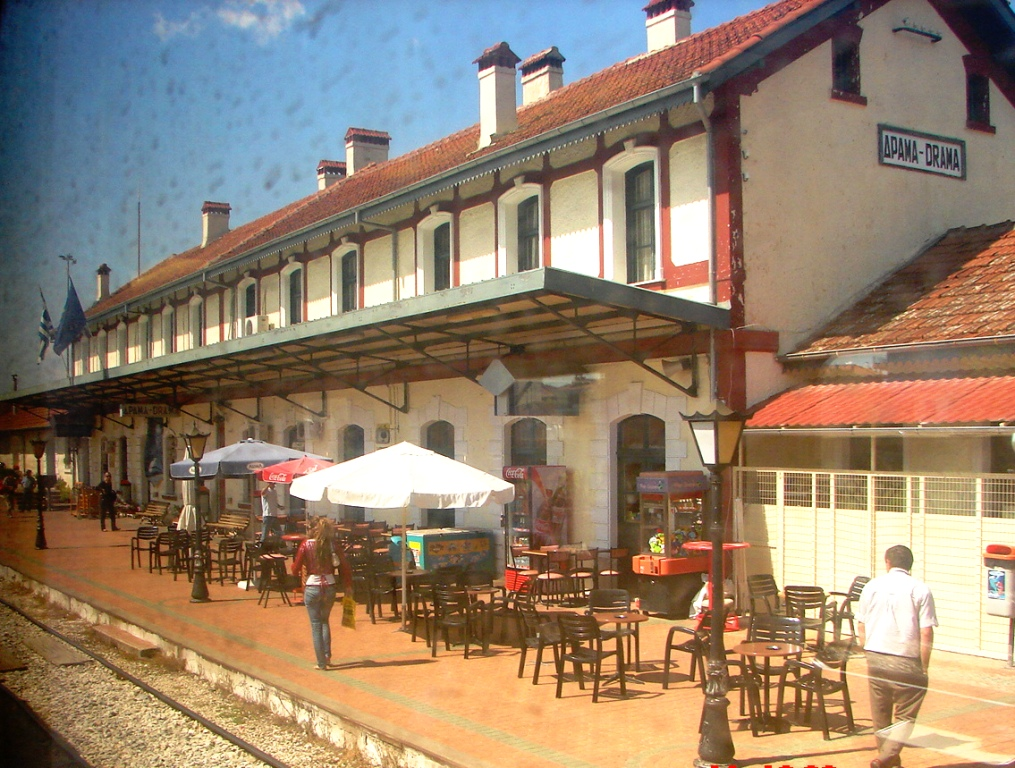 a@a Drama train station Greece